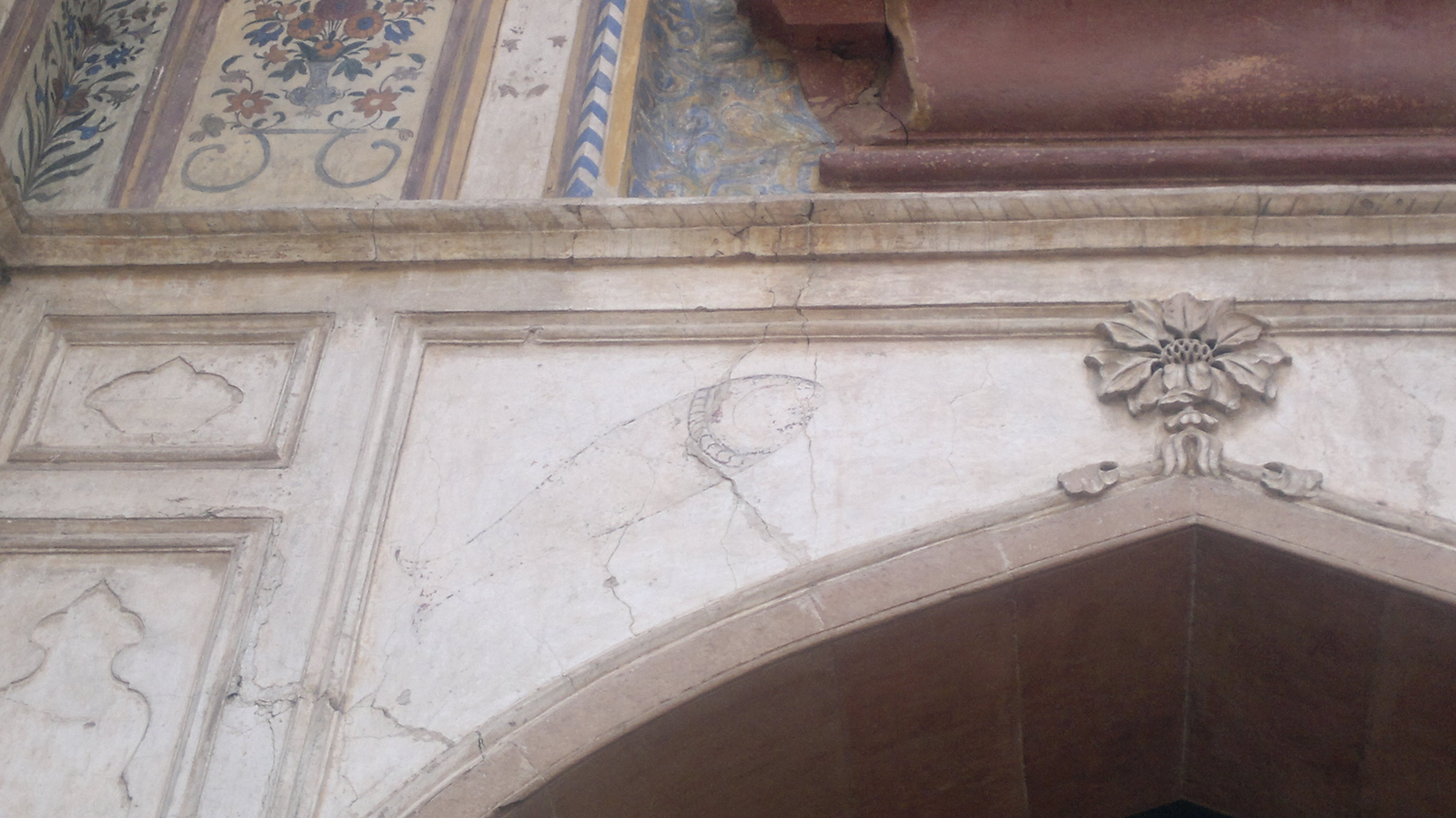 Mahi Maraatib , the royal insignia of Awadh, is basically a pair of fish. It represents truth,valor and honesty. Here , one may notice the sole survivor from what must have been a pair of prominently painted fish. This insignia invokes Safdarjung's Awadhi connection.